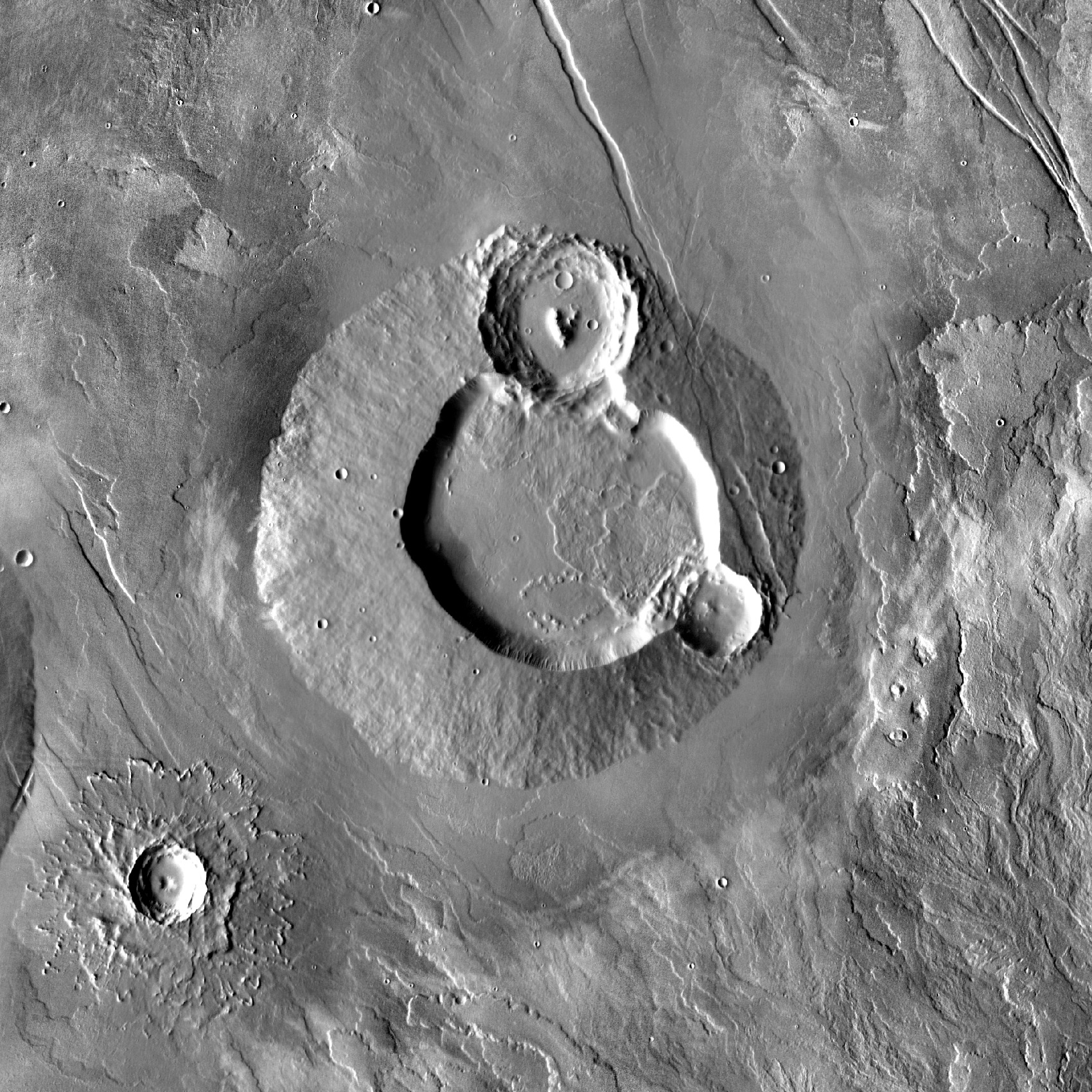 THEMIS daytime infrared image mosaic showing the volcano Ulysses Tholus in the central part of the Tharsis region of Mars.